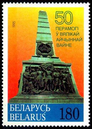 Stamp of Belarus